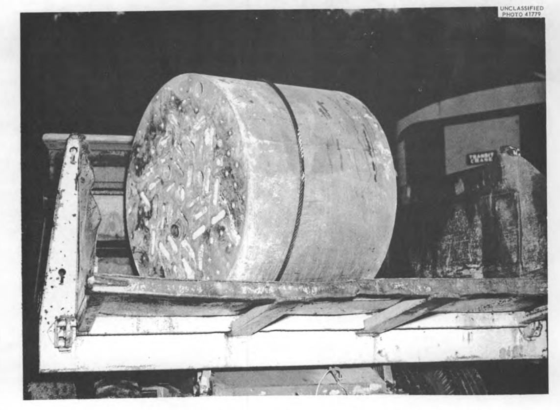 Aircraft Reactor Experiment bottom view ready for transfer to burial ground